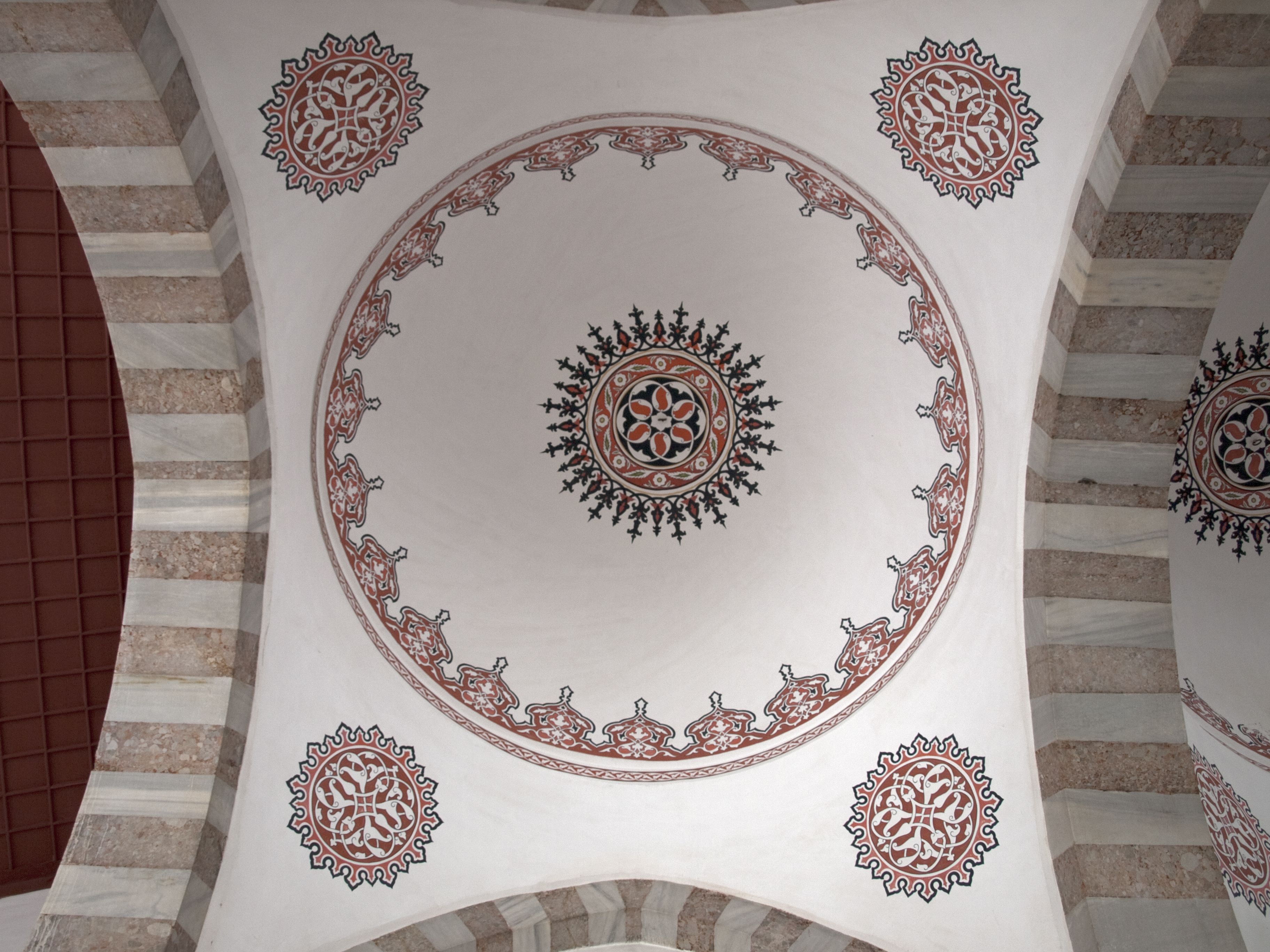 The dome of Atik Valide Mosque, Uskudar